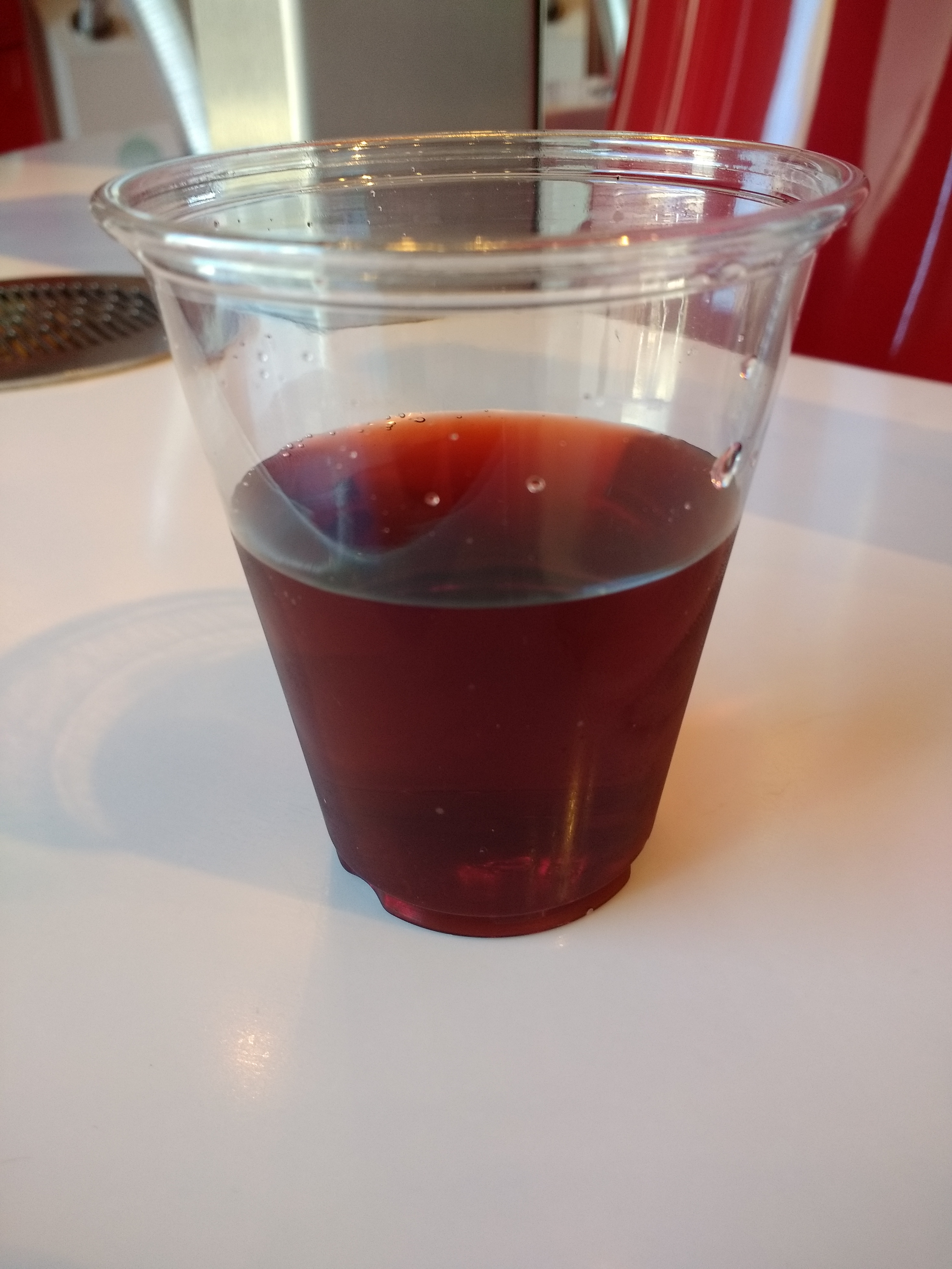 Delaware Punch from a soda fountain at the World of Coca-Cola museum in Atlanta.